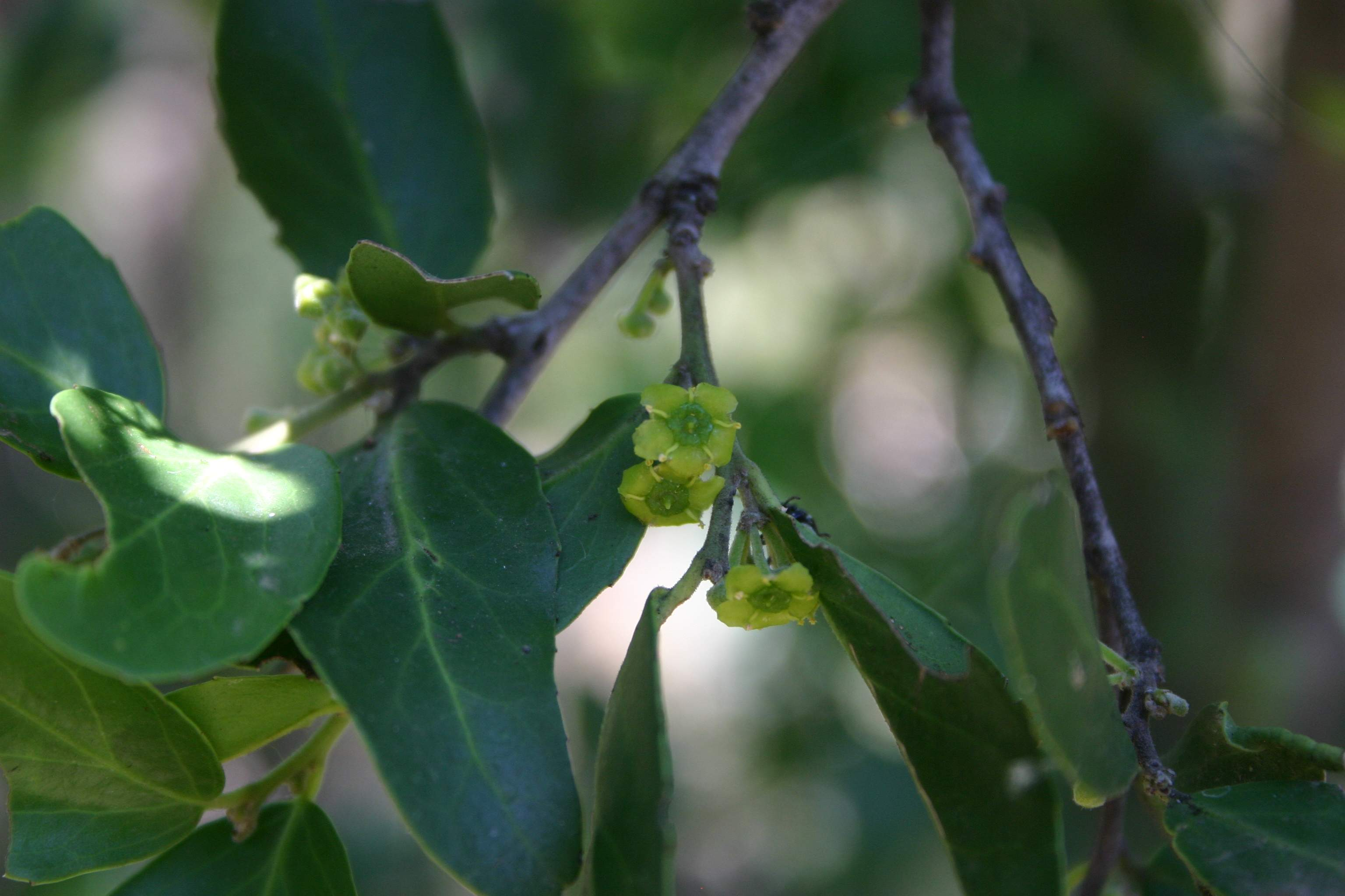 Flowers and leaves of Cassine burkeana (Sond.) Kuntze, at Hamerkop near Sparkling Waters, Magaliesberg, South Africa